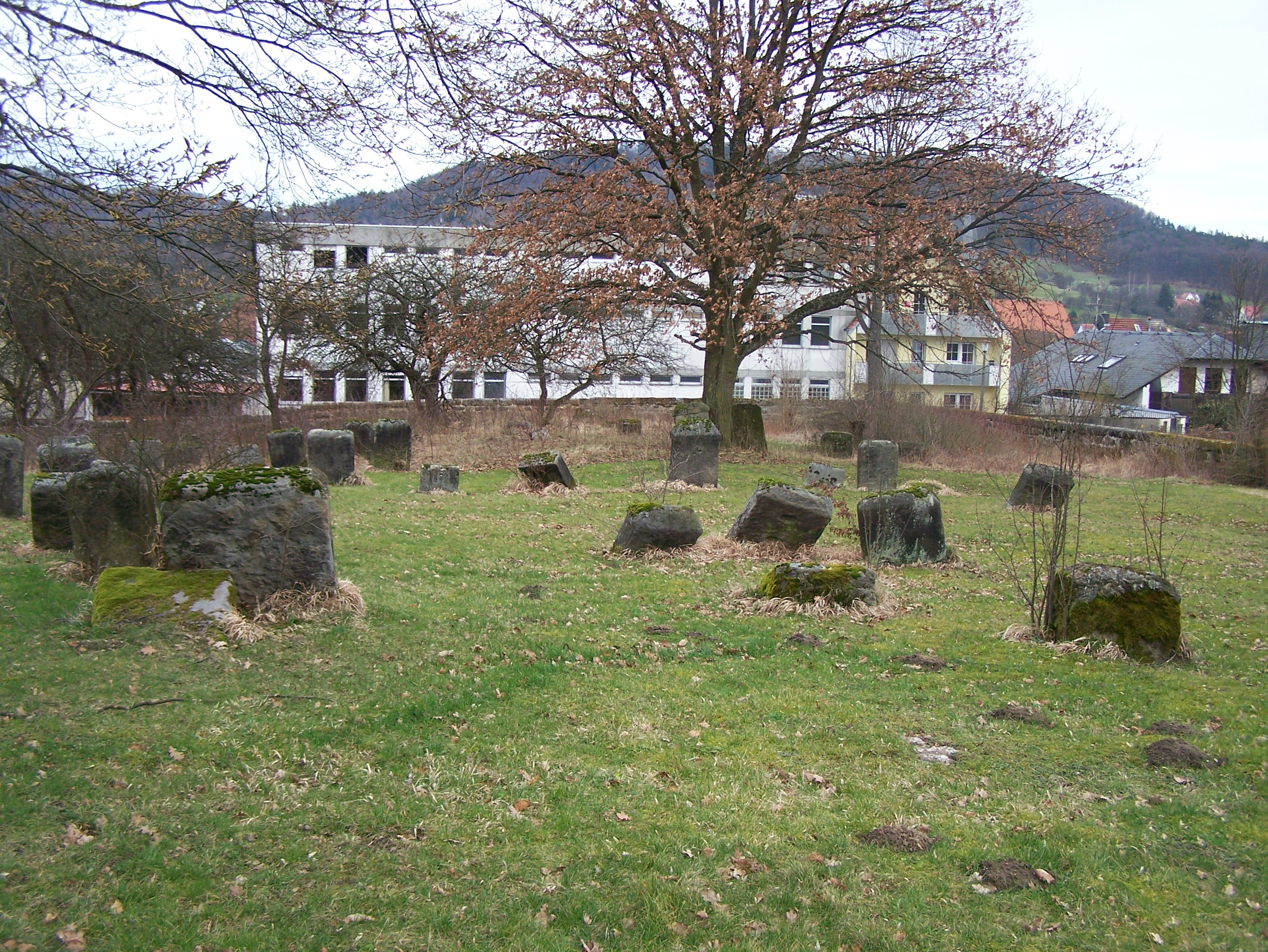 First jewish cemetery in Schnaittach, Germany.